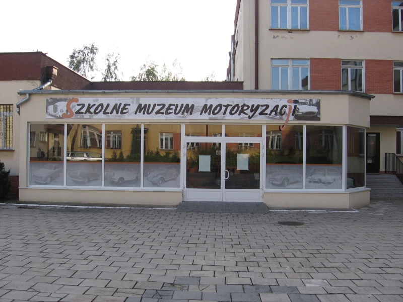 Szkolne Muzeum Motoryzacji w Toruniu